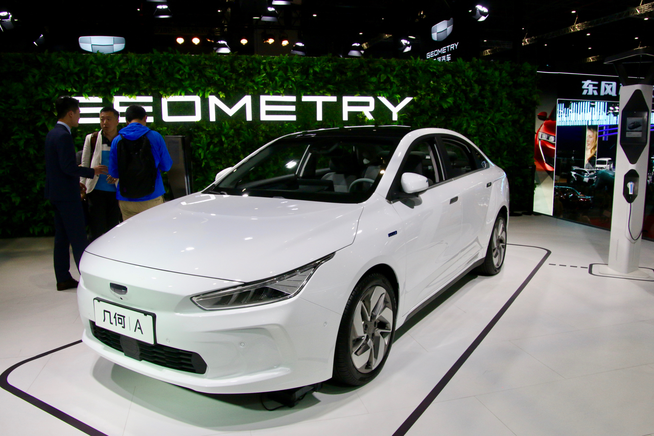 Geometry A is an electric car from the Chinese Geely company